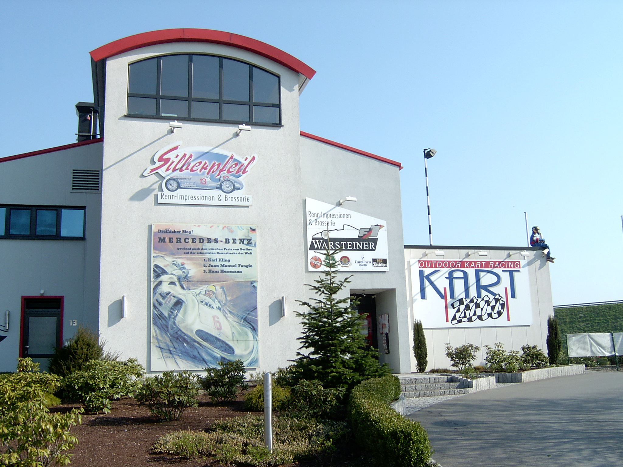 Cart racing court in town of Kirchlengern, District of Herford, North Rhine-Westphalia, Germany.